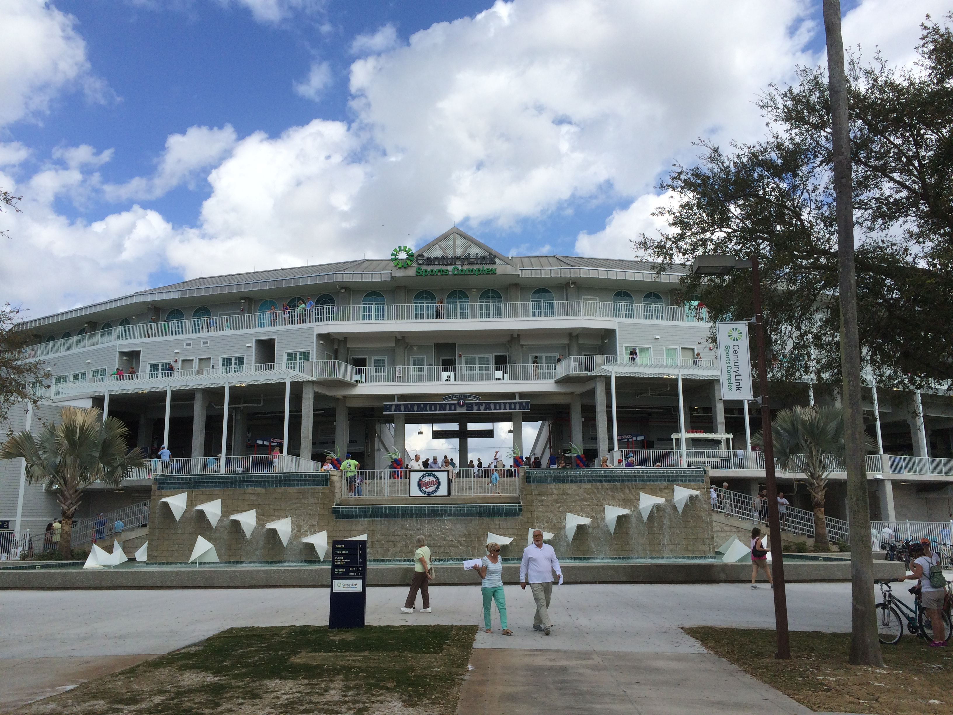 Entrance to Hammond Stadium